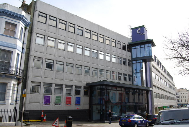 University College Hastings Part of Brighton University.